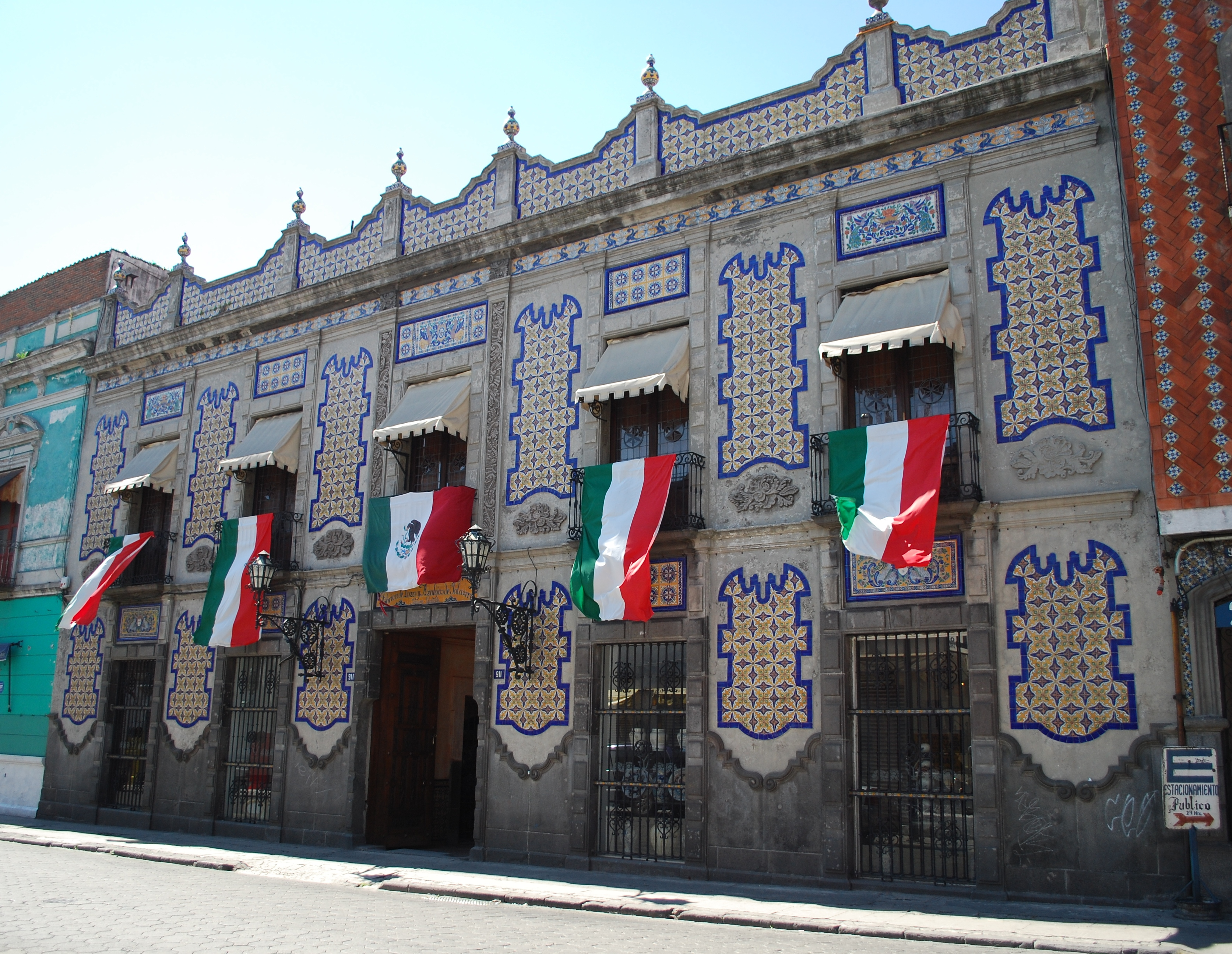 Facade of the Uriarte Talavera pottery workshop on 4Poniente Street in the city of Puebla